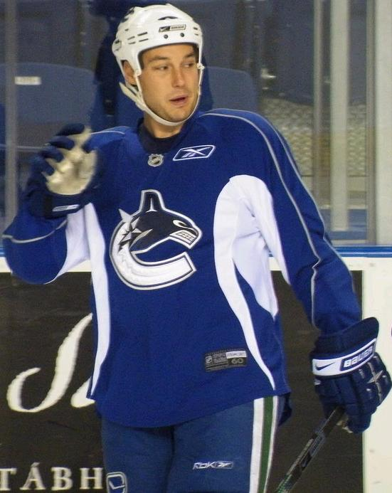 Kyle Wellwood, centre for the Vancouver Canucks of the National Hockey League